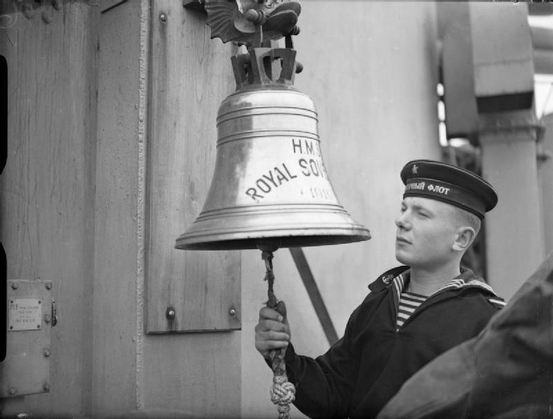 The Royal Navy during the Second World War A Russian rating sounding the bell of HMS ROYAL SOVEREIGN (after being passed to the Soviet Navy and renamed ARCHANGELSK).